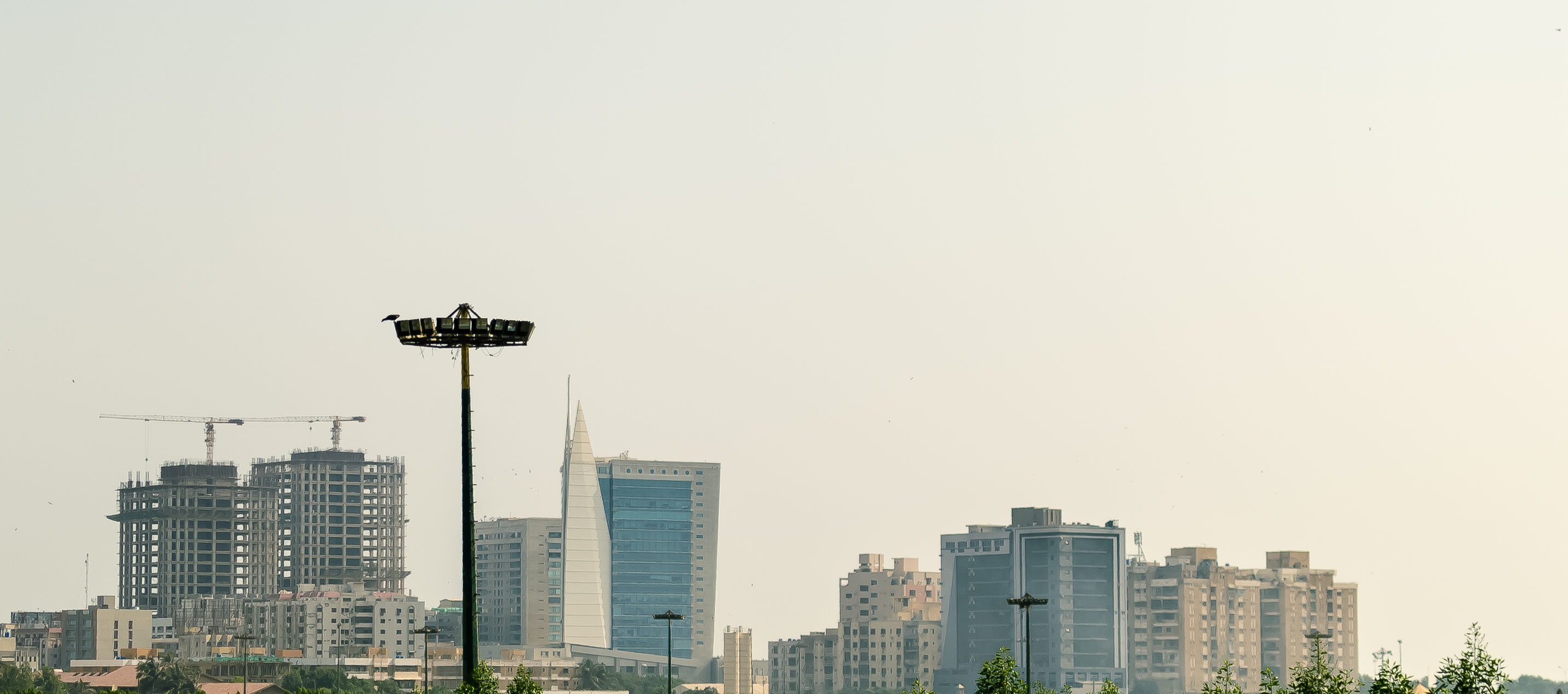 Clifton Karachi skyline